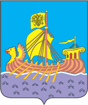 Coat of arms of Kostroma oblast File:Coat of arms of Kostroma Oblast small.svg is a vector version of this file. It should be used in place of this raster image when not inferior. File:Coa of kostroma oblast.png File:Coat of arms of Kostroma Oblast small.svg For more information, see Help:SVG.